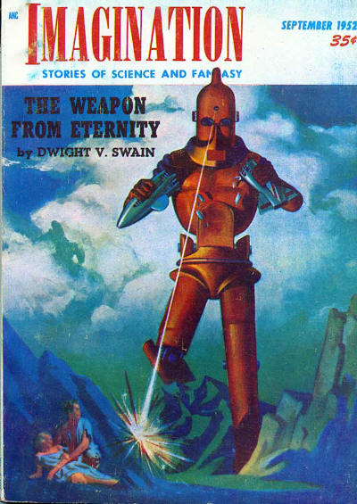 Cover of Imagination, September 1952